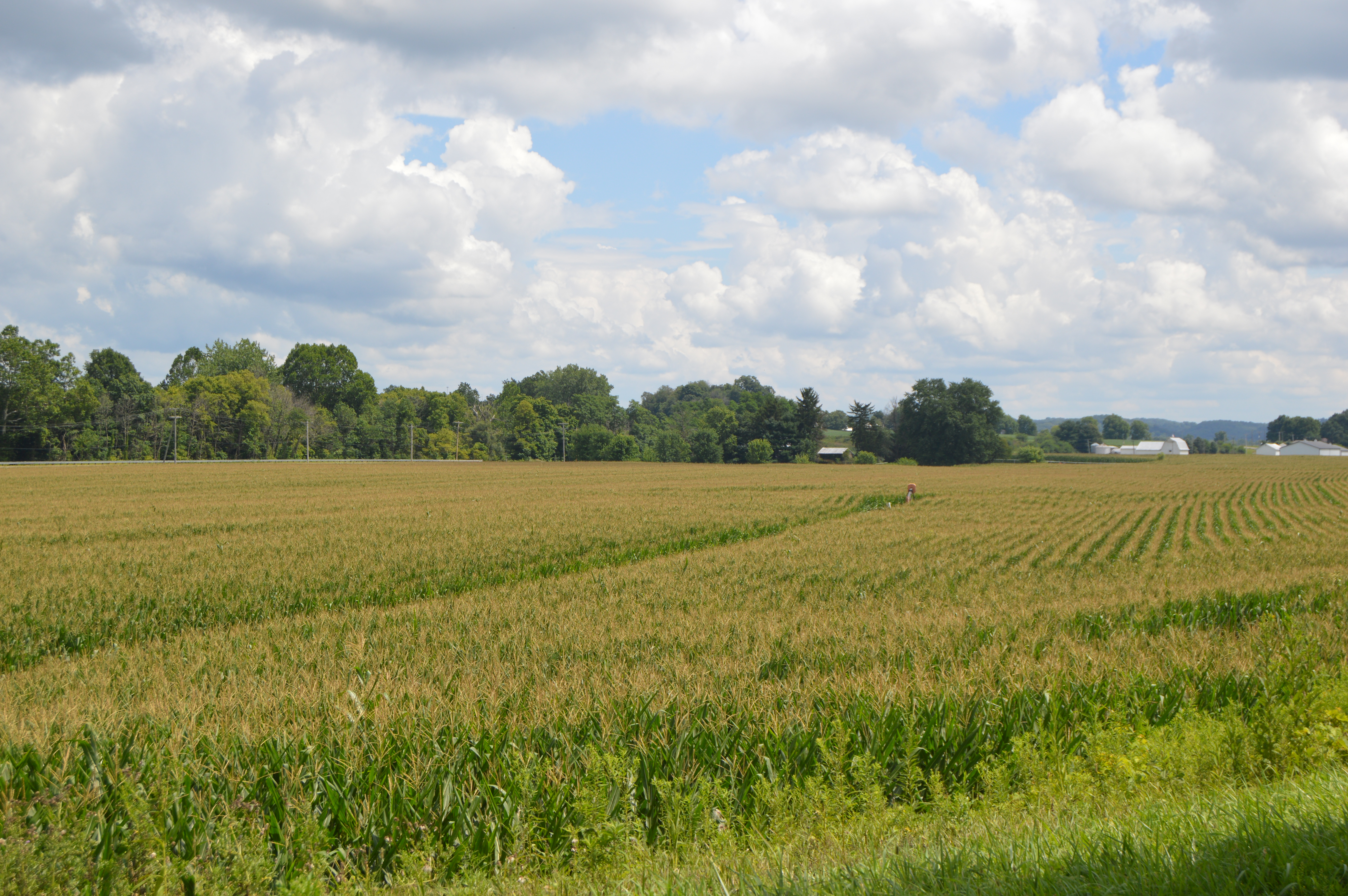 Cornfields on the southeastern side of Smoots Road northwest of St. Louisville in Washington Township, Licking County, Ohio, United States. State Route 13 is visible at far left.